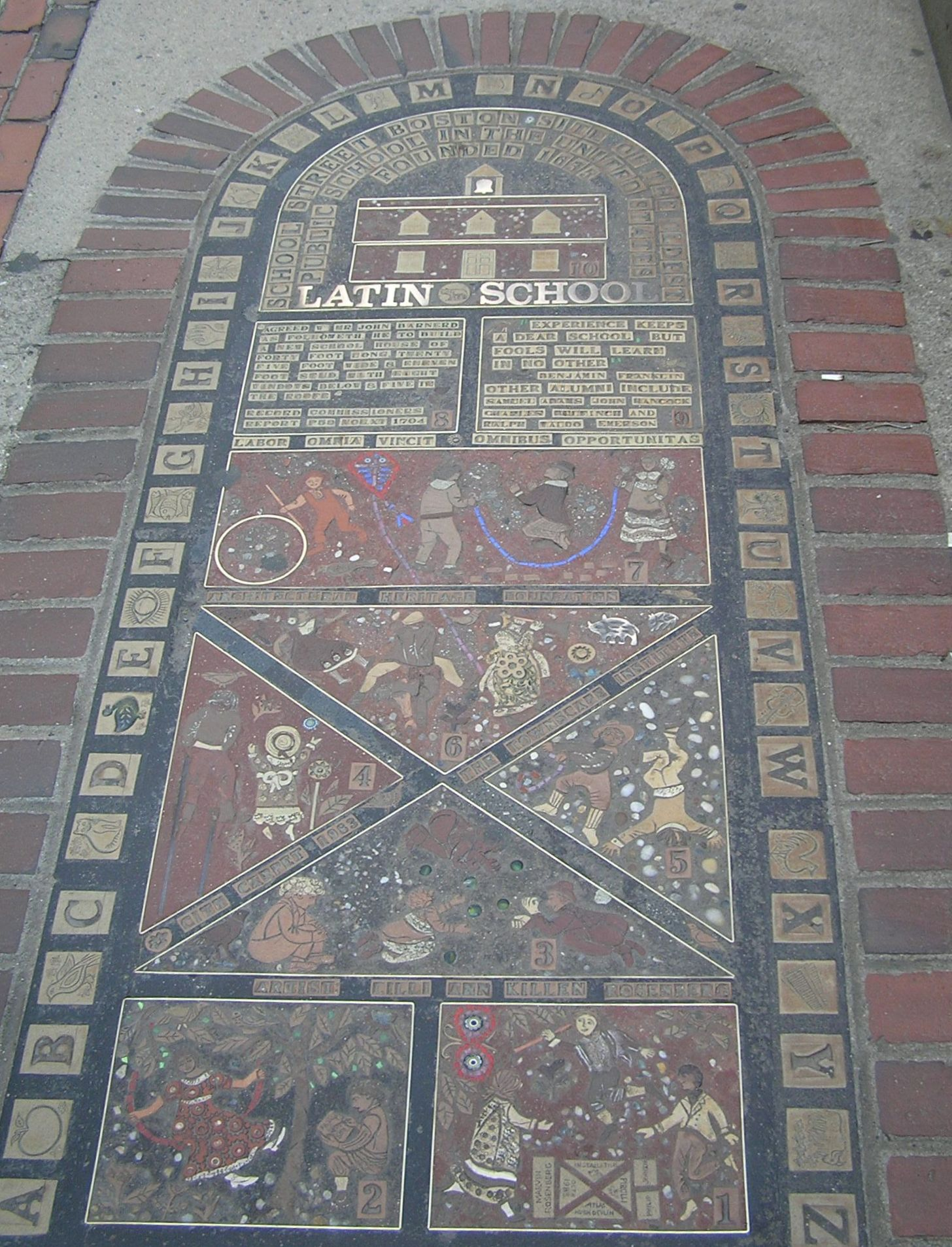 Hopscotch-shaped street art entitled City Carpet by Lilli Ann Killen Rosenberg. The mosaic commemorates the original site of Boston Latin School, the first public school in America. Photo taken on School Street in Boston, by Yannick Trottier 2007